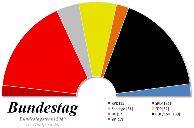 Composition of the first German Bundestag at the after the 1949 federal election.